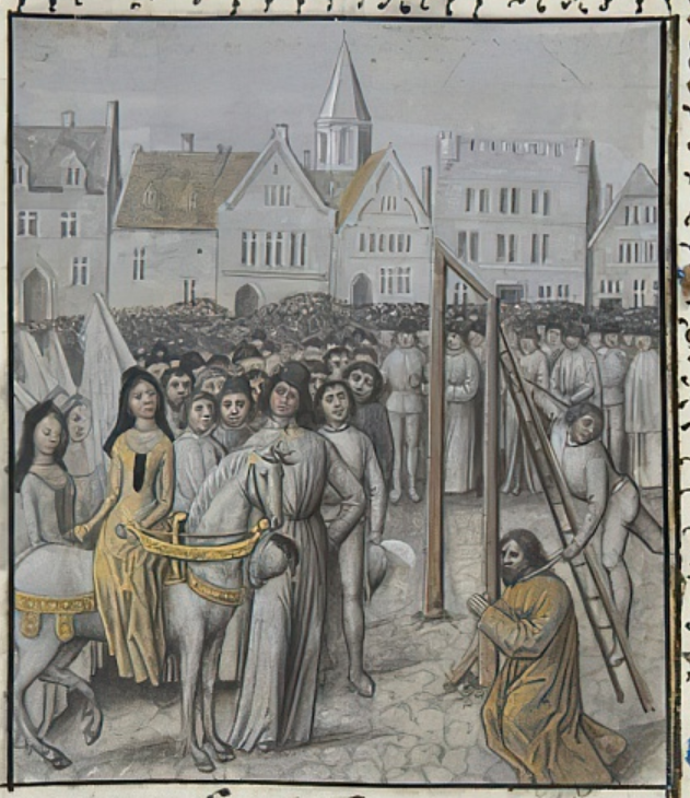 Ms 659 fol.78r The execution of Guillaume Hugonet